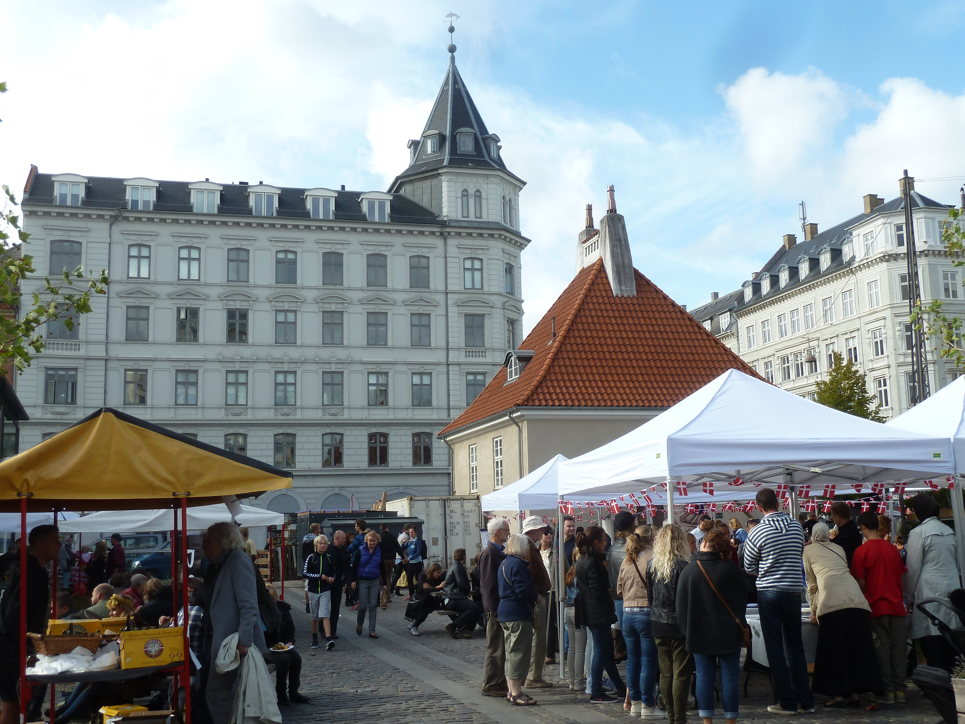 Market at Israels Plads in Copenhagen, Denmark